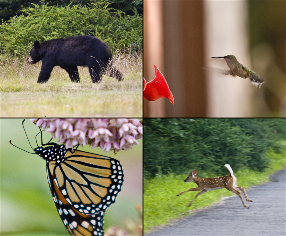 Black Bear, White-tailed deer, Hummingbird, and Monarch Butterfly all at Ganoga Lake in Colley Township, Sullivan County, Pennsylvania in the United States.